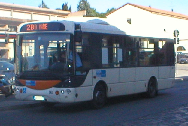 Autodromo Alè minibus (#1411, reg. CB 728CR) in Rimini, Italy. TRAM Servizi, S.p.A. operator.